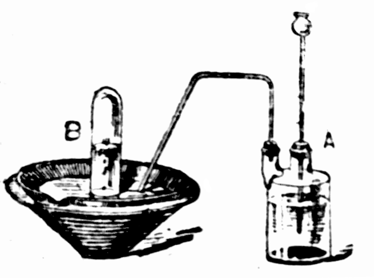 Woulfe bottle ("bubble bottle", marked as A) used in hydrogen generator